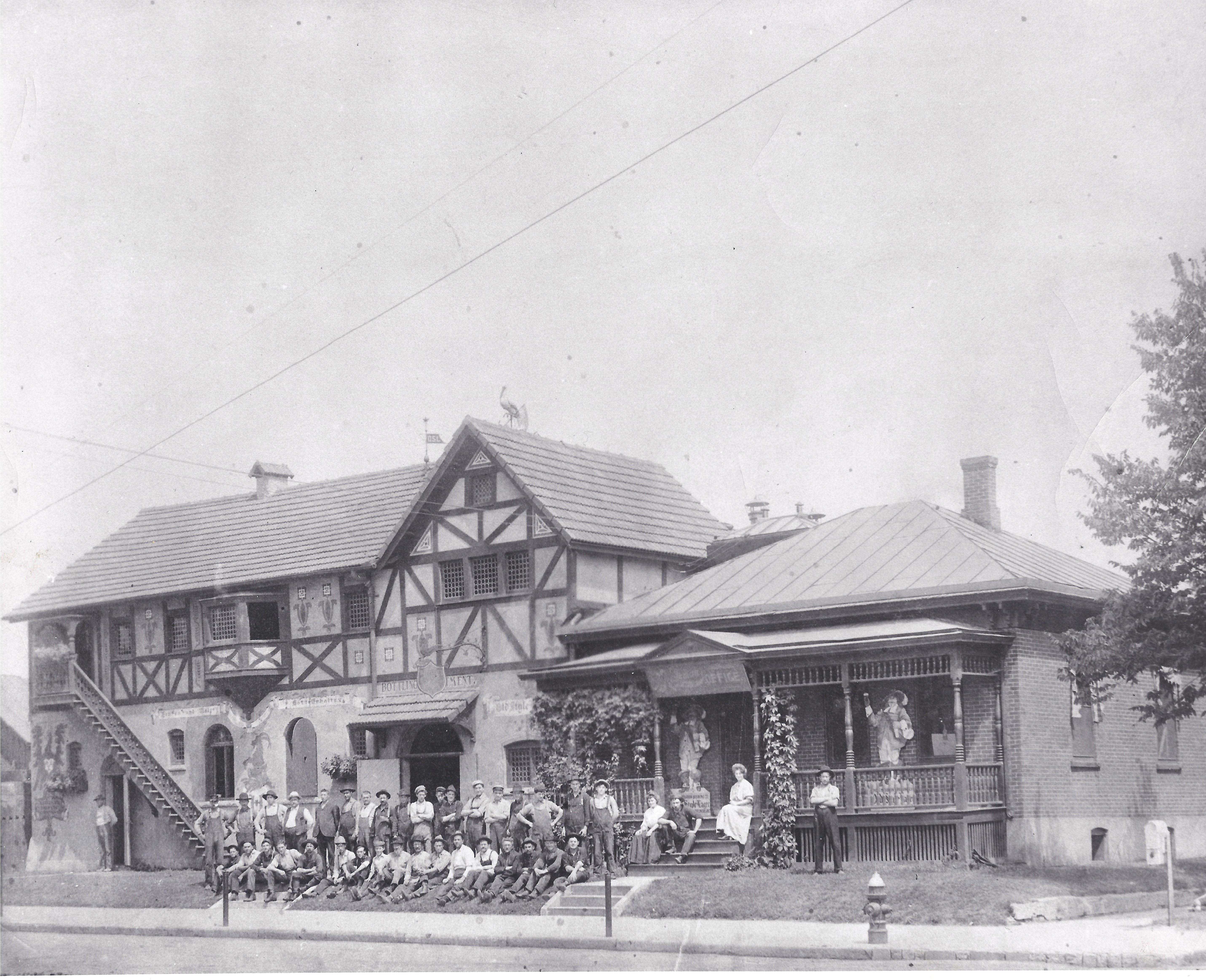 A photograph circa 1910 of the G. Heileman Brew House along with the employees.